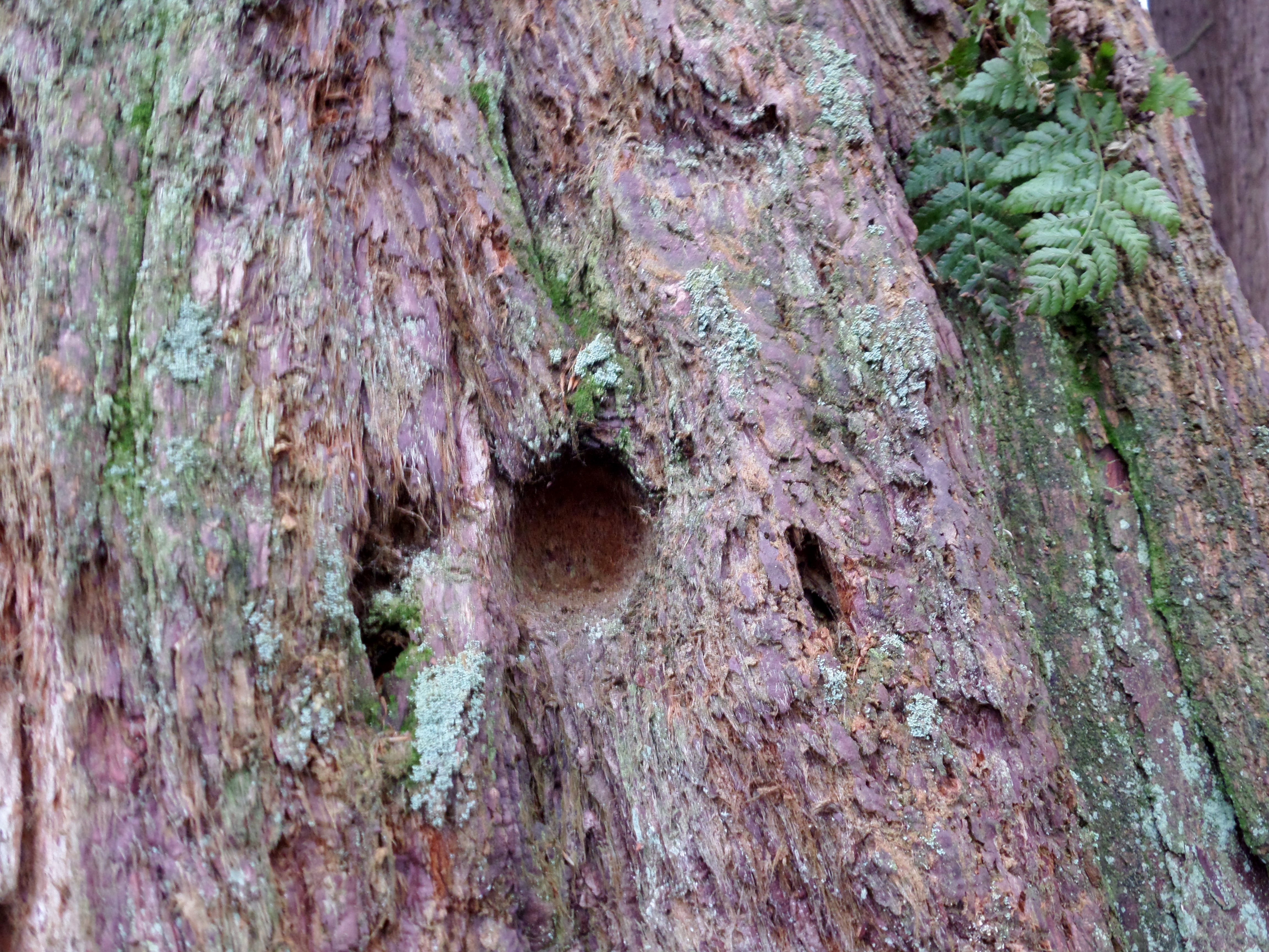 Wellingtonia tree bark with Treecreeper roosting holes, Blair Castle, Dalry, Scotland.